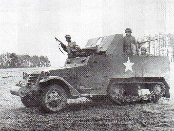 75mm Howitzer Motor Carriage T30 in England, 17 Mar 1943.